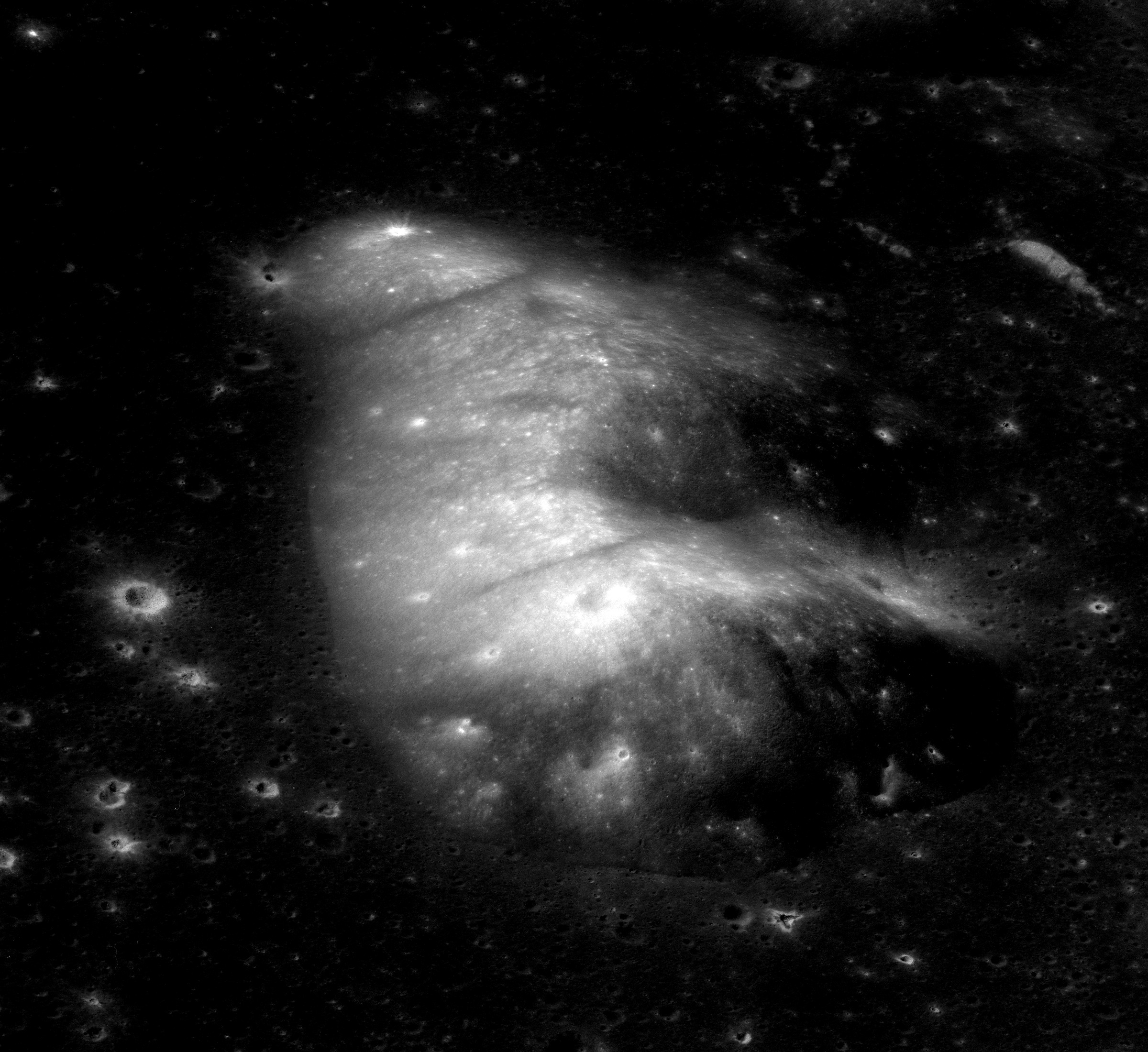 Oblique view of Mons Usov crater, within Mare Crisium, facing south, on the moon. Taken by Apollo 17 panoramic camera.